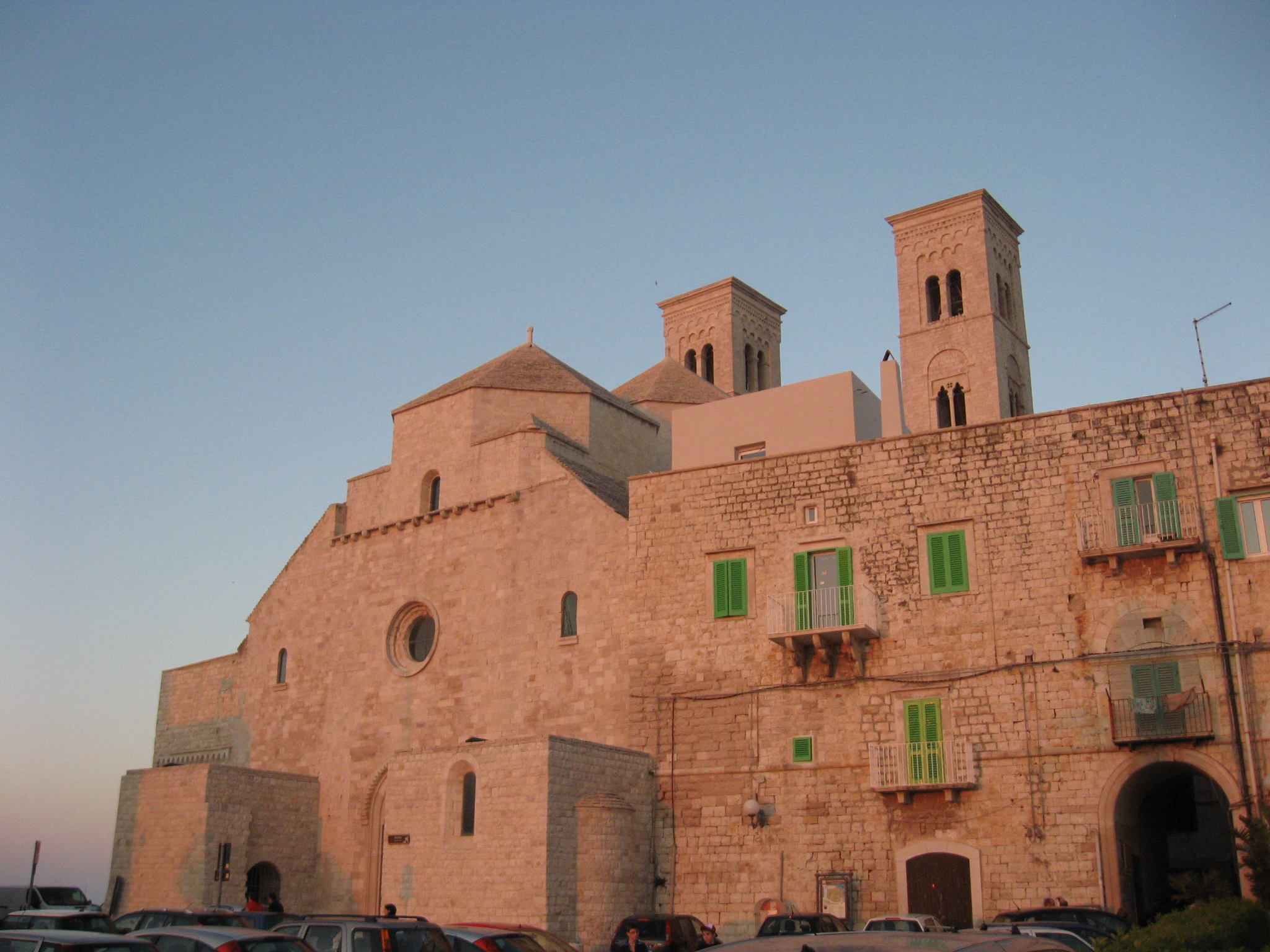 The old cathedral of San Corrado in Molfetta